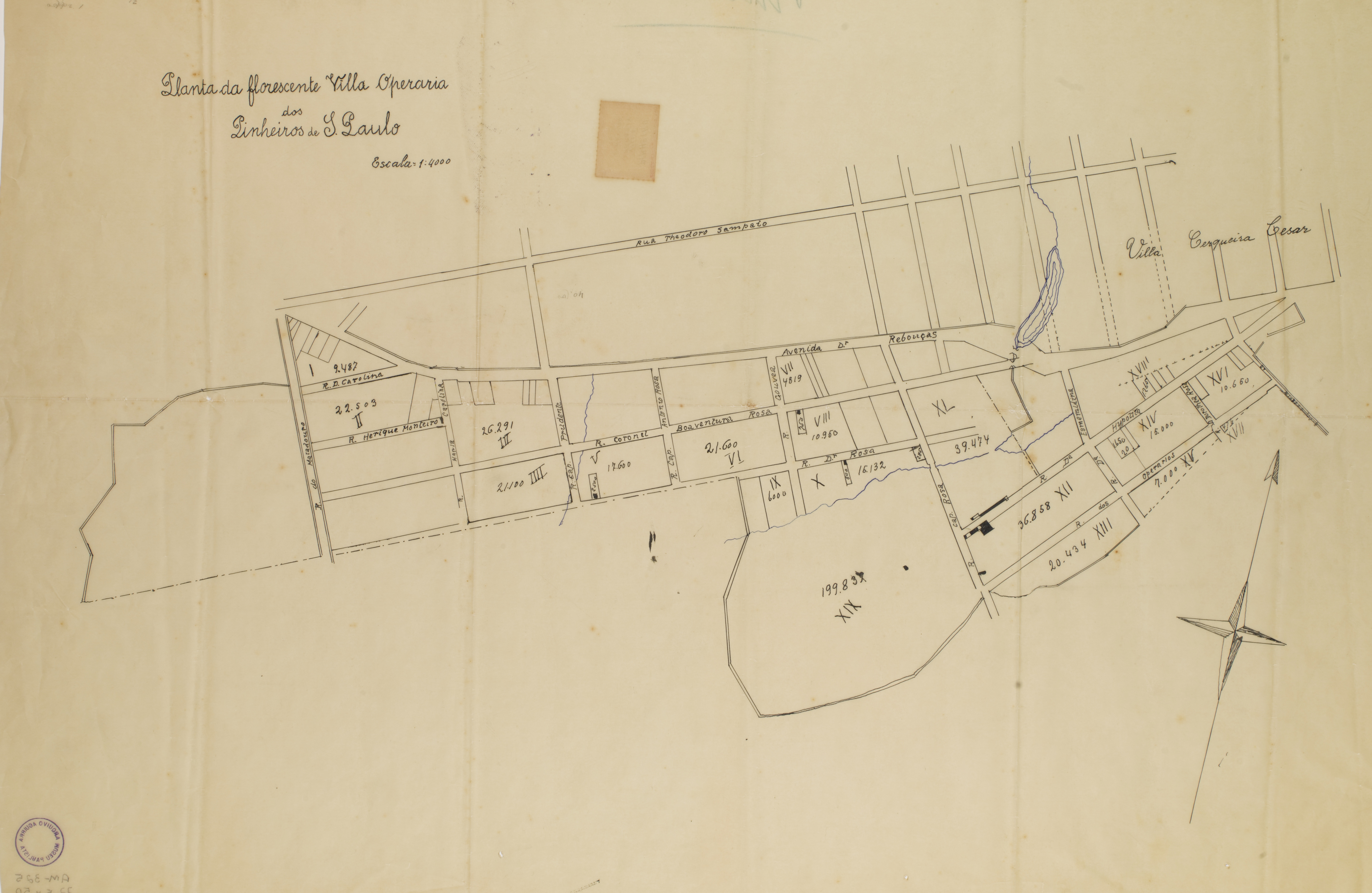 Detalhe da Planta da Vila Operária de Pinheiros